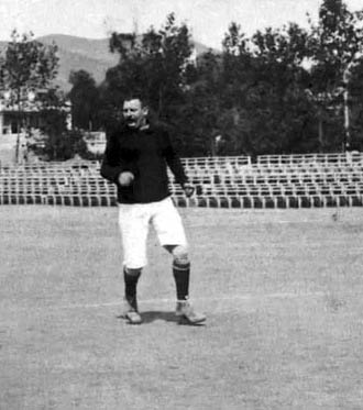 Joan Gamper before a match start, playing for FC Barcelona.